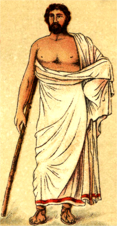 Himation